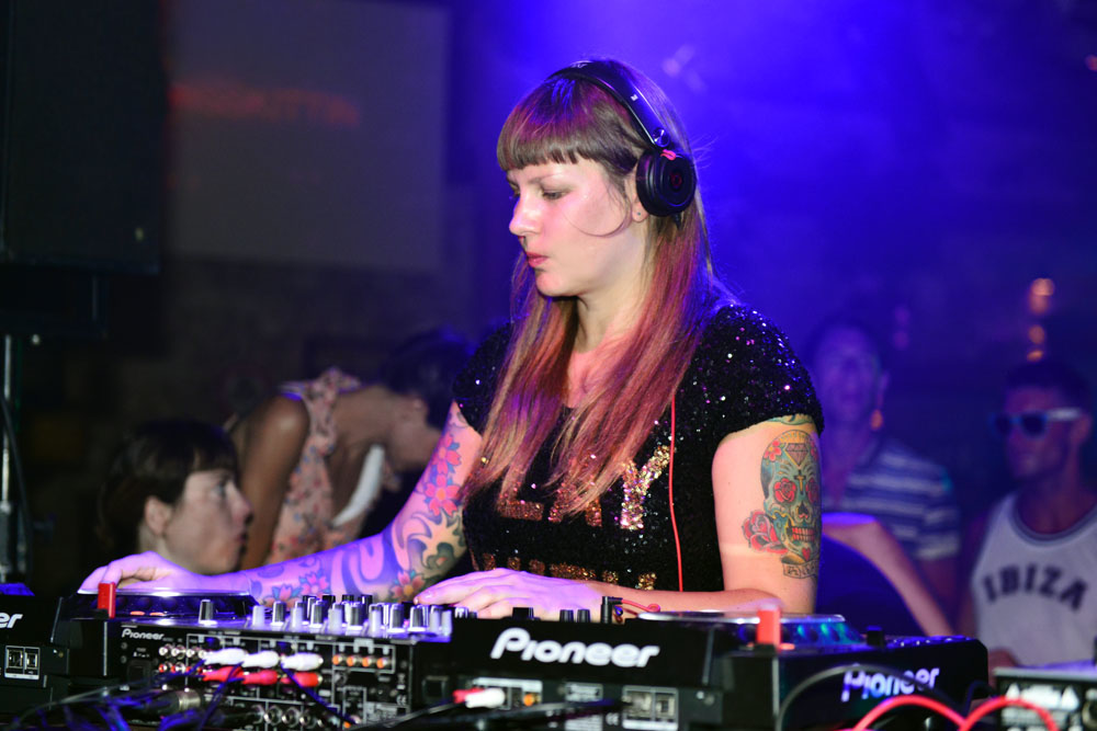 07.09.12 - Music On. More pics at